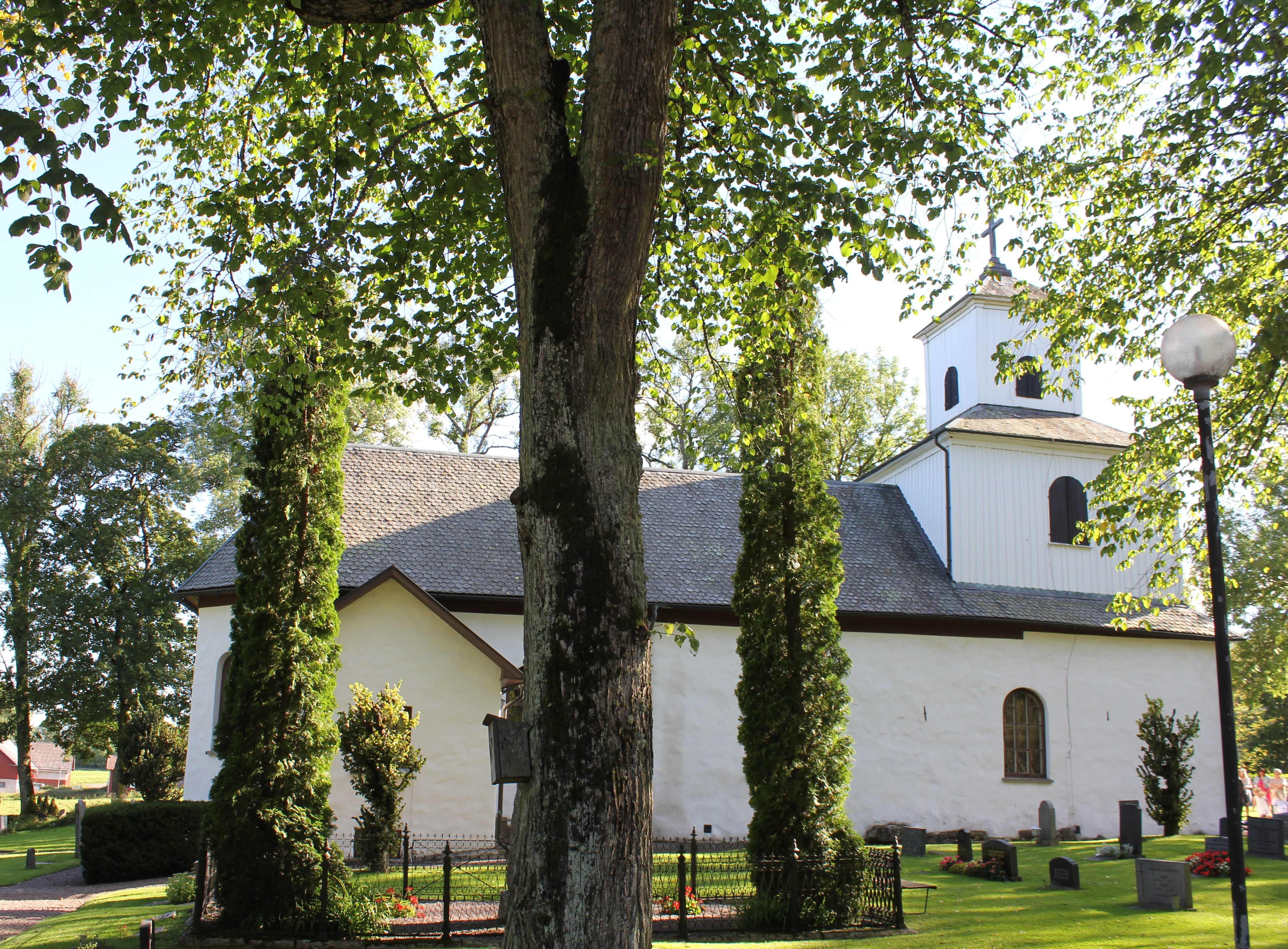 Säters kyrka in Skövde municipality.